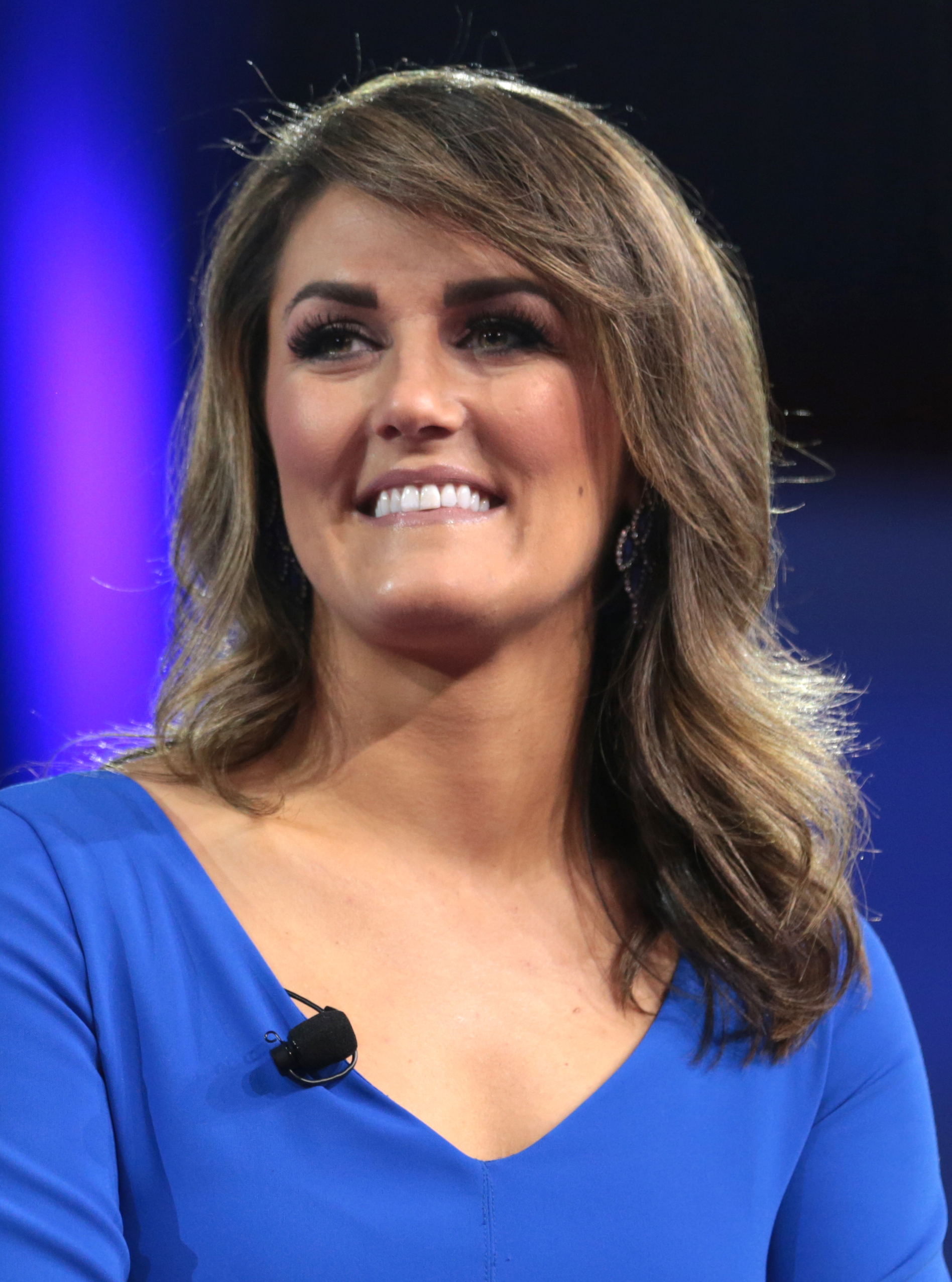 Kimberly Corban speaking at the 2017 CPAC in National Harbor, Maryland.